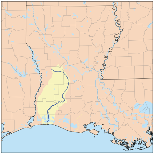 Map of the Calcasieu River watershed.